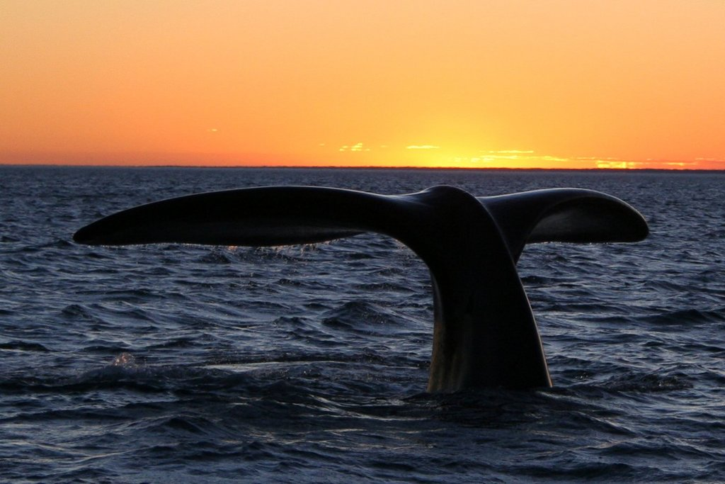 Southern right whale (Peninsula Valdés, Patagonia, Argentina)